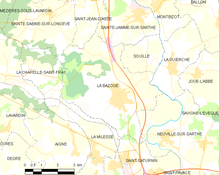 Map of French municipality